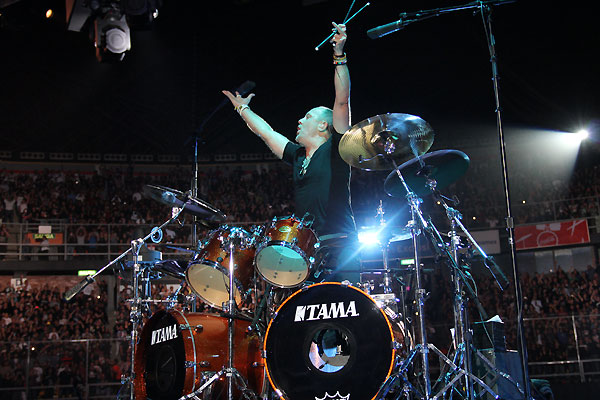 Metallica playing in Mexico City 2012